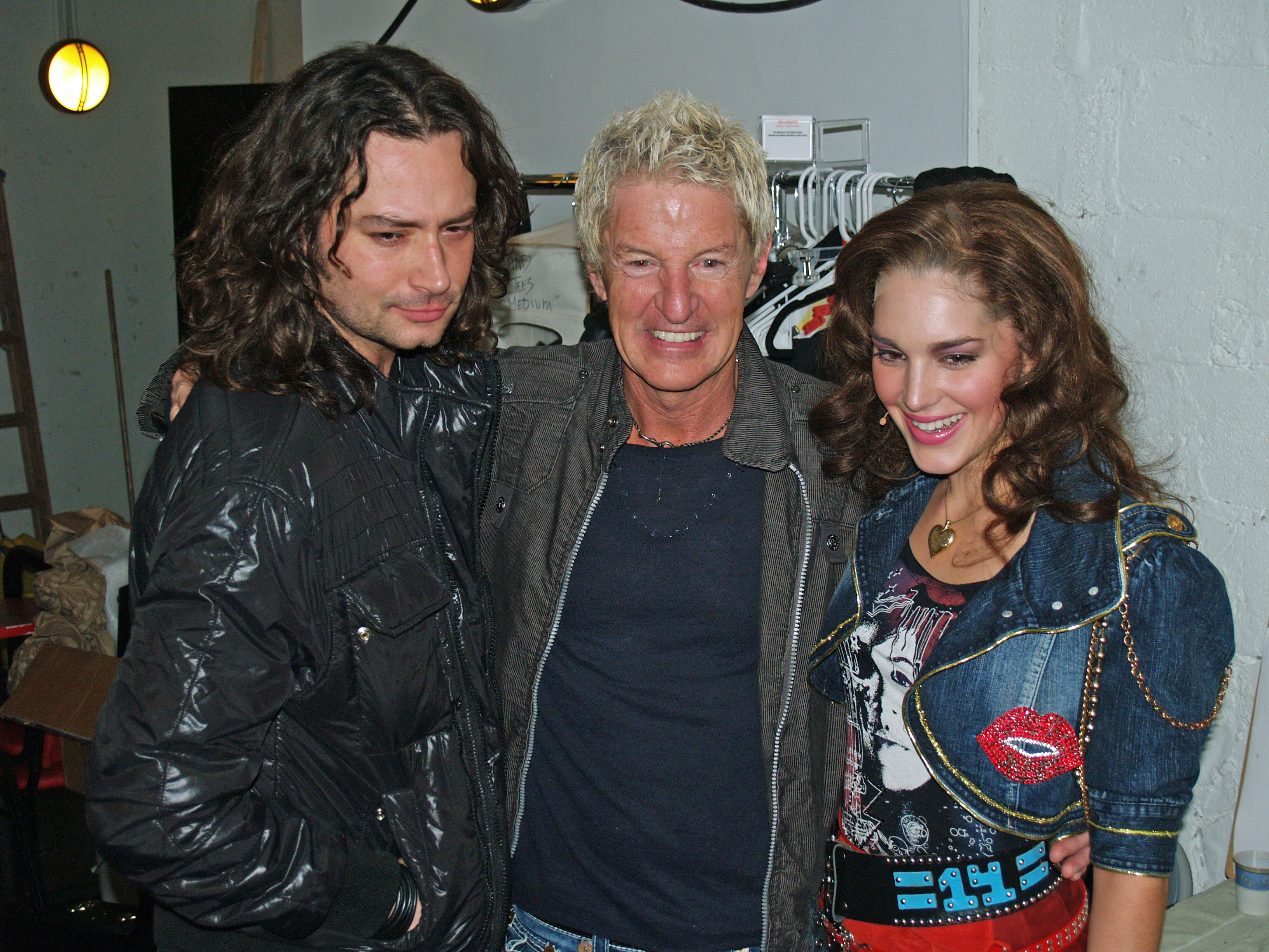 Constantine Maroulis, Kevin Cronin and Kelli Barrett backstage at the off-Broadway musical Rock of Ages.